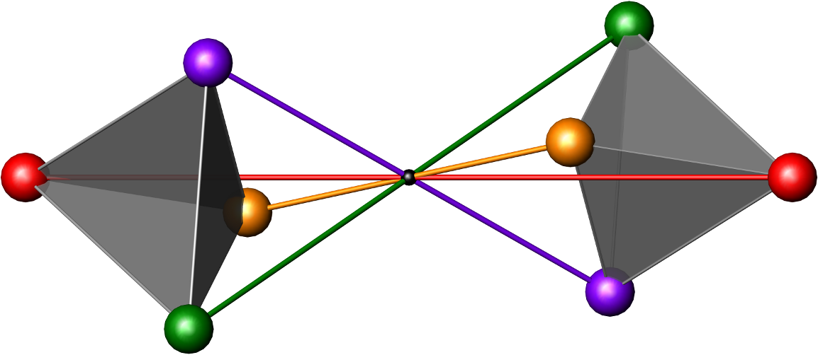 Three dimensional point reflection.